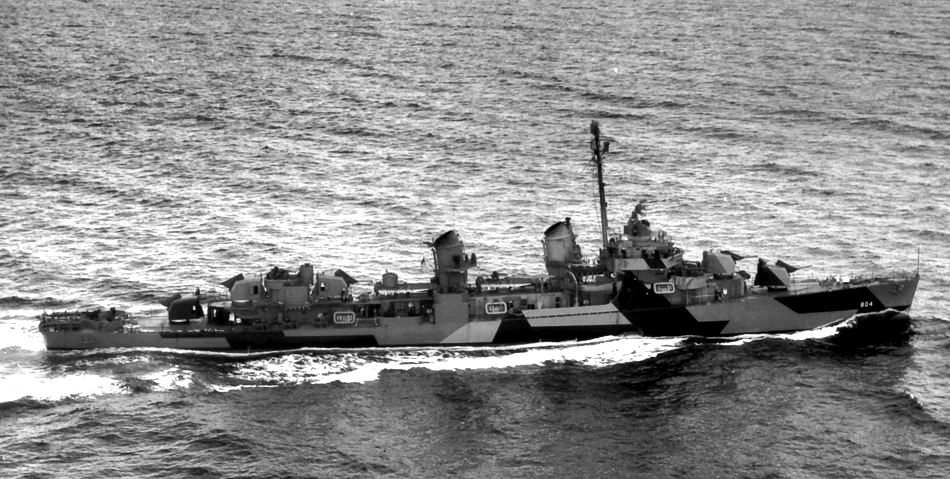 The U.S. Navy destroyer USS Rooks (DD-804) underway in Puget Sound (USA) on 16 September 1944. She is painted in Camouflage Measure 31, Design 11D.